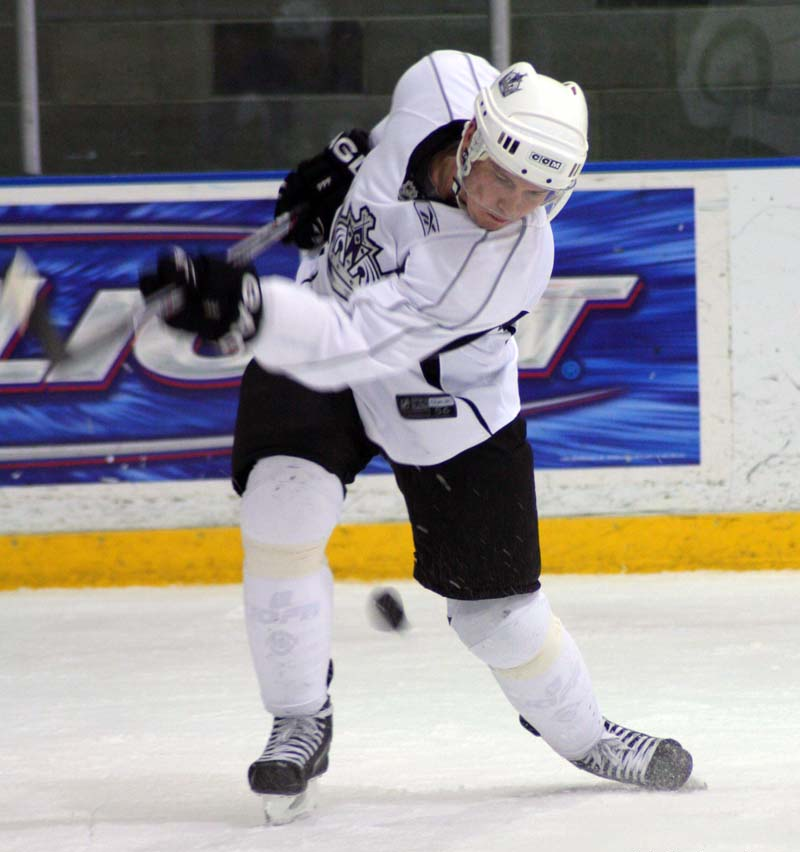 Slovak ice hockey player Ladislav Nagy shooting the puck